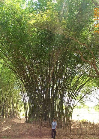 Bambusa balcooa is also called as Beema bamboo. It is an Indian verity widely grown in India. This also used for biomass. Just 200 acre of land cultivation of Beema bamboo is enough to generate 1MW of electricity.